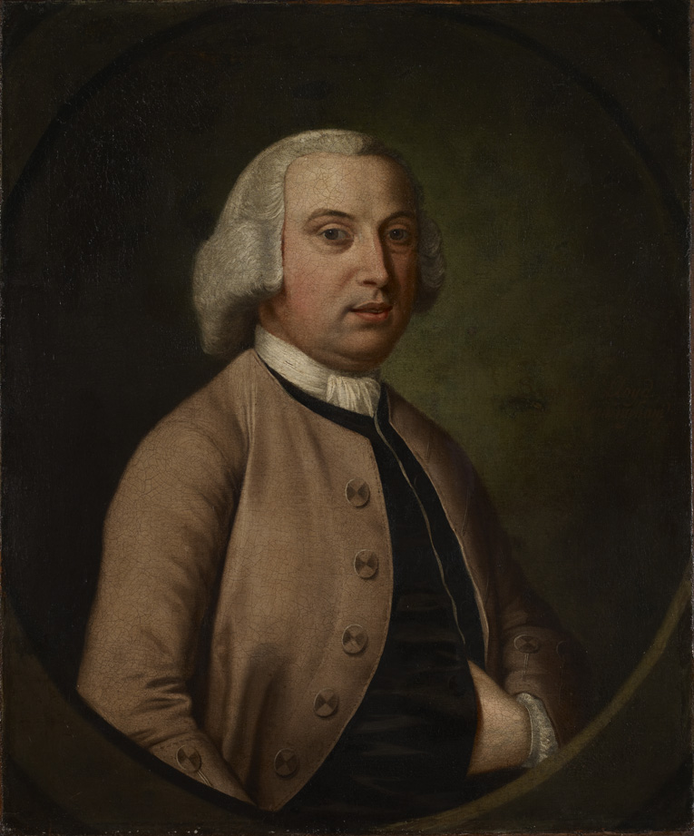 Portrait of Sampson Lloyd II (1699–1779), Birmingham iron merchant and founder of Lloyds Bank. Artist unknown. In the collection of Birmingham Museum and Art Gallery, Accession number: 2008.1893